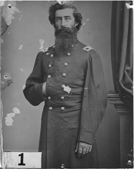 Colonel Francis E. Pinto (32nd New York Infantry), Civil War Period